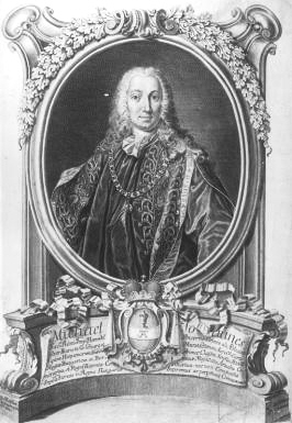 Johann_Michael_von_Althann austrian politician